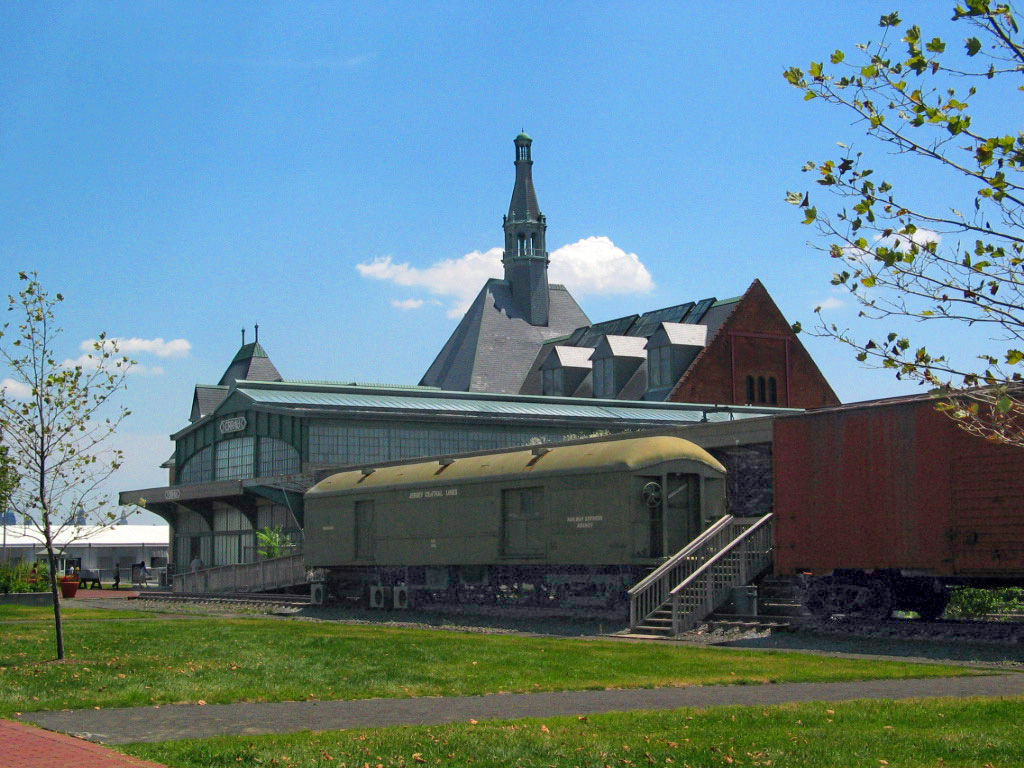 Looking east at the rear side of the CRR NJ terminal. Ferry dock is in background left.